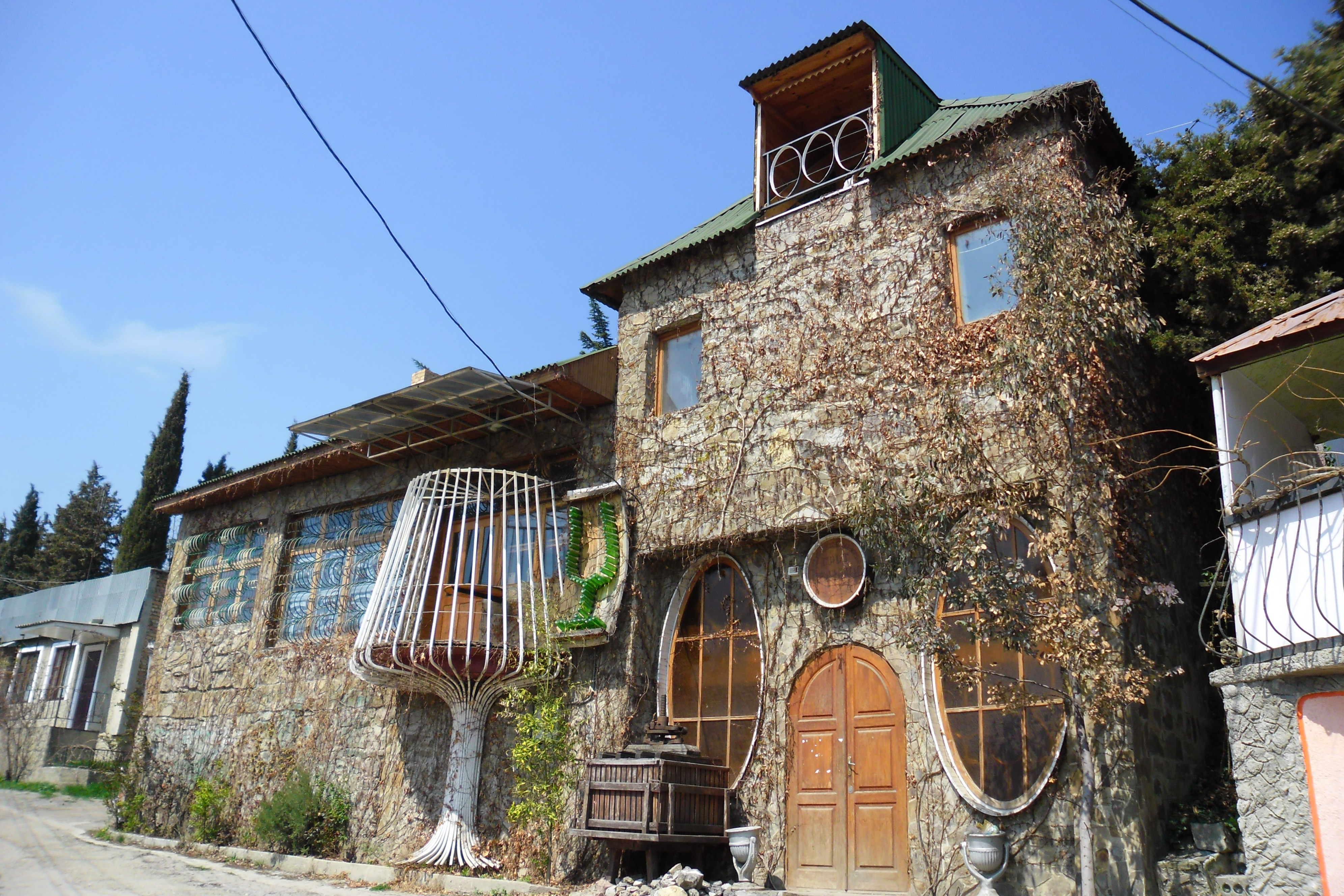 Fakidova coffeehouse. Solnechnogorskoye village, Alushta city council, Crimea